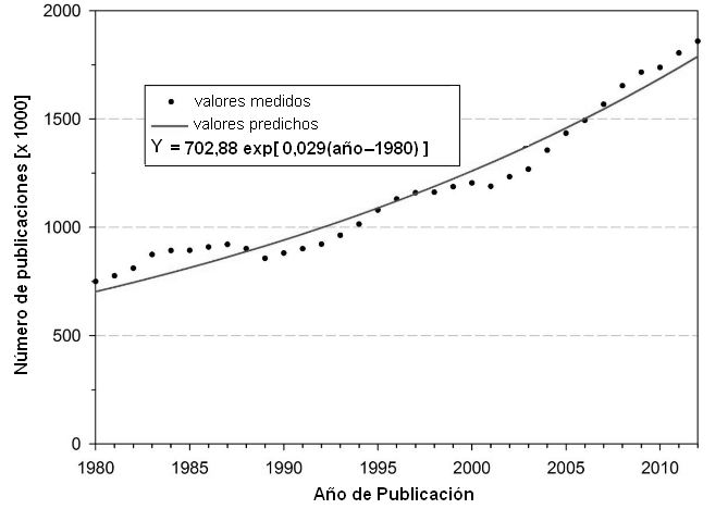 Número de artículos científicos por año (Fuente: Growth rates of modern science: A bibliometric analysis based on the number of publications and cited references)